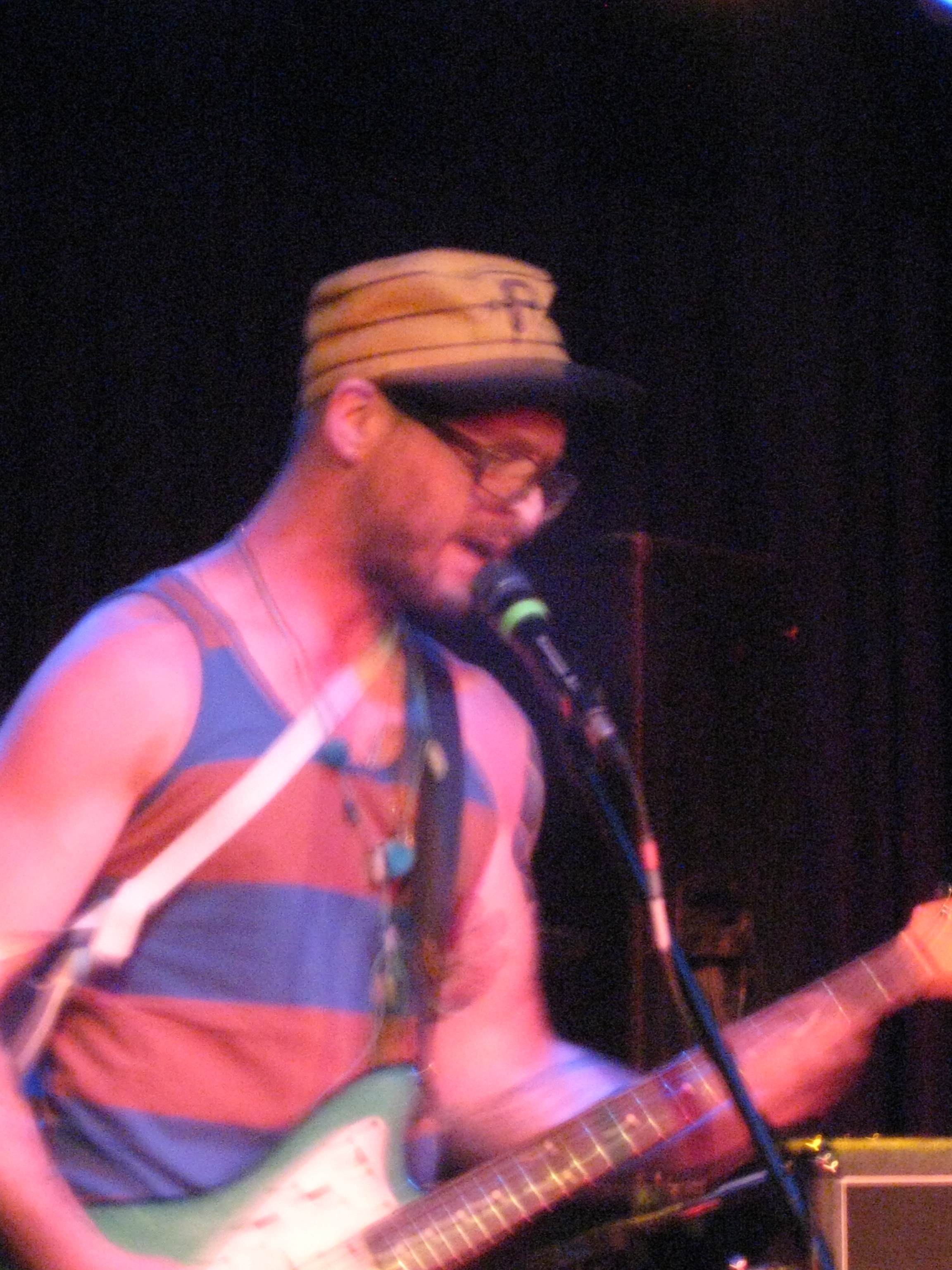 Dan Vacon, lead singer of Canadian rock band The Dudes, performing with his band at the NXNE festival in Toronto